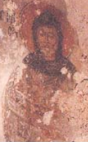 Saint Simeon Stylites from Archangels Church in Drama.